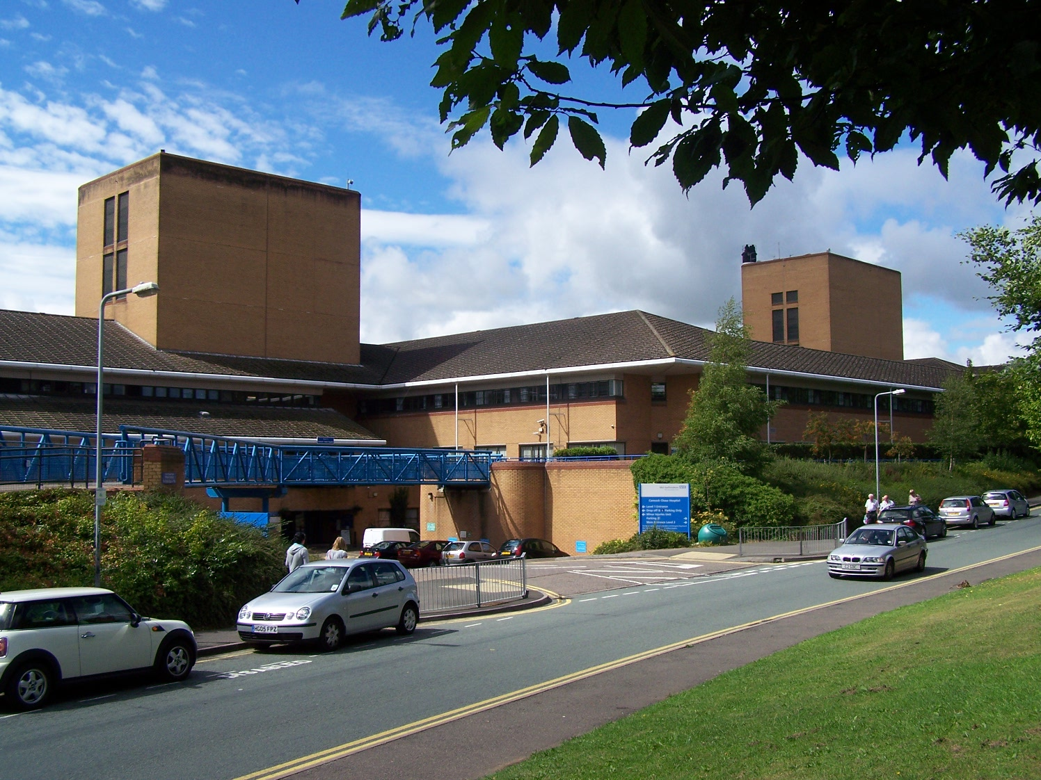 Cannock Chase Hospital, in Cannock, Staffordshire, England. Level 1 entrance and minor injuries entrance. Hospital opened in 1991.